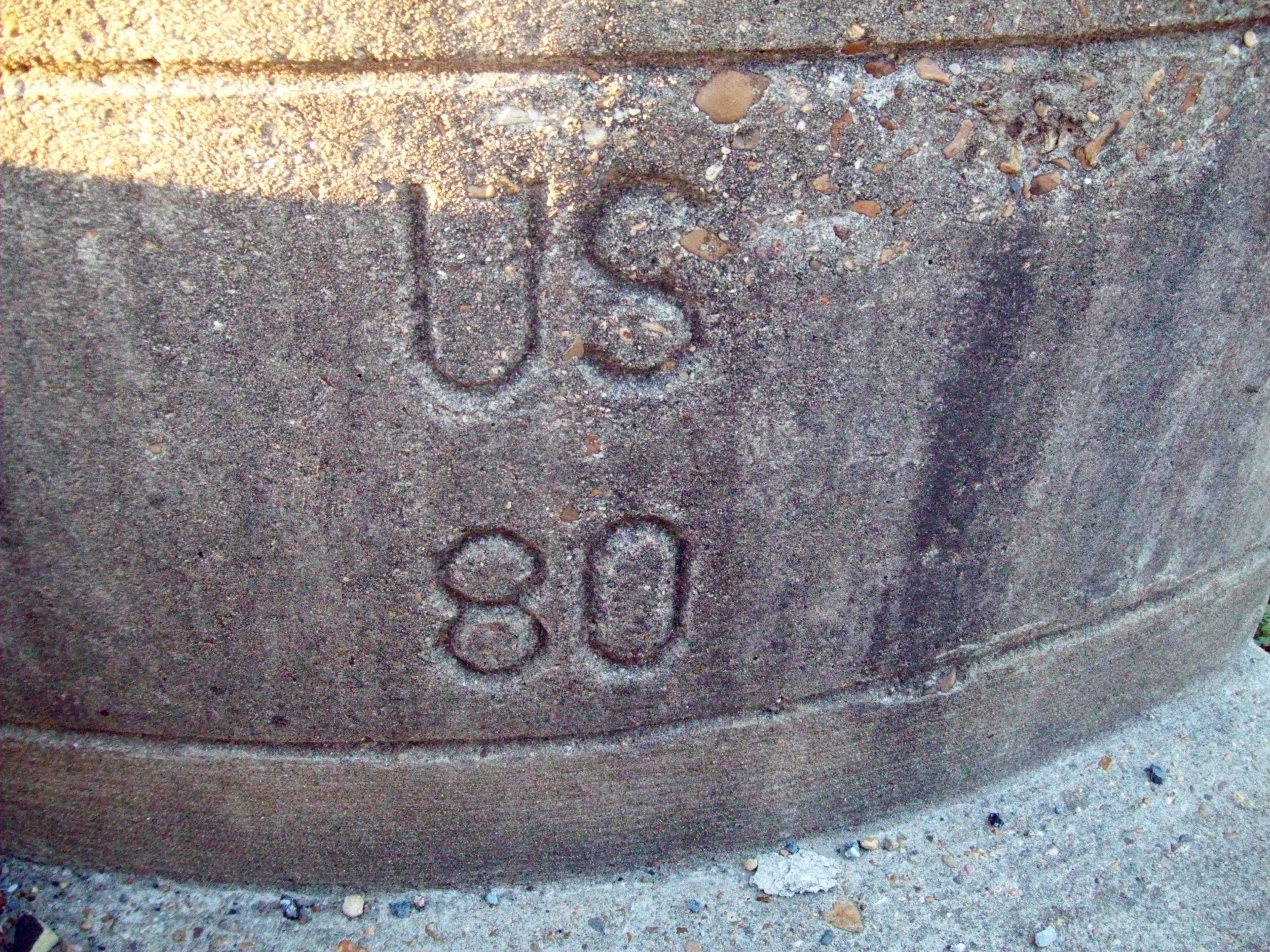 Louisiana typically stamps the ends of bridges with the route name and what feature it is crossing. This end cap has US 80 stamped into it, while the other side of the bridge has Tensas River stamped into it